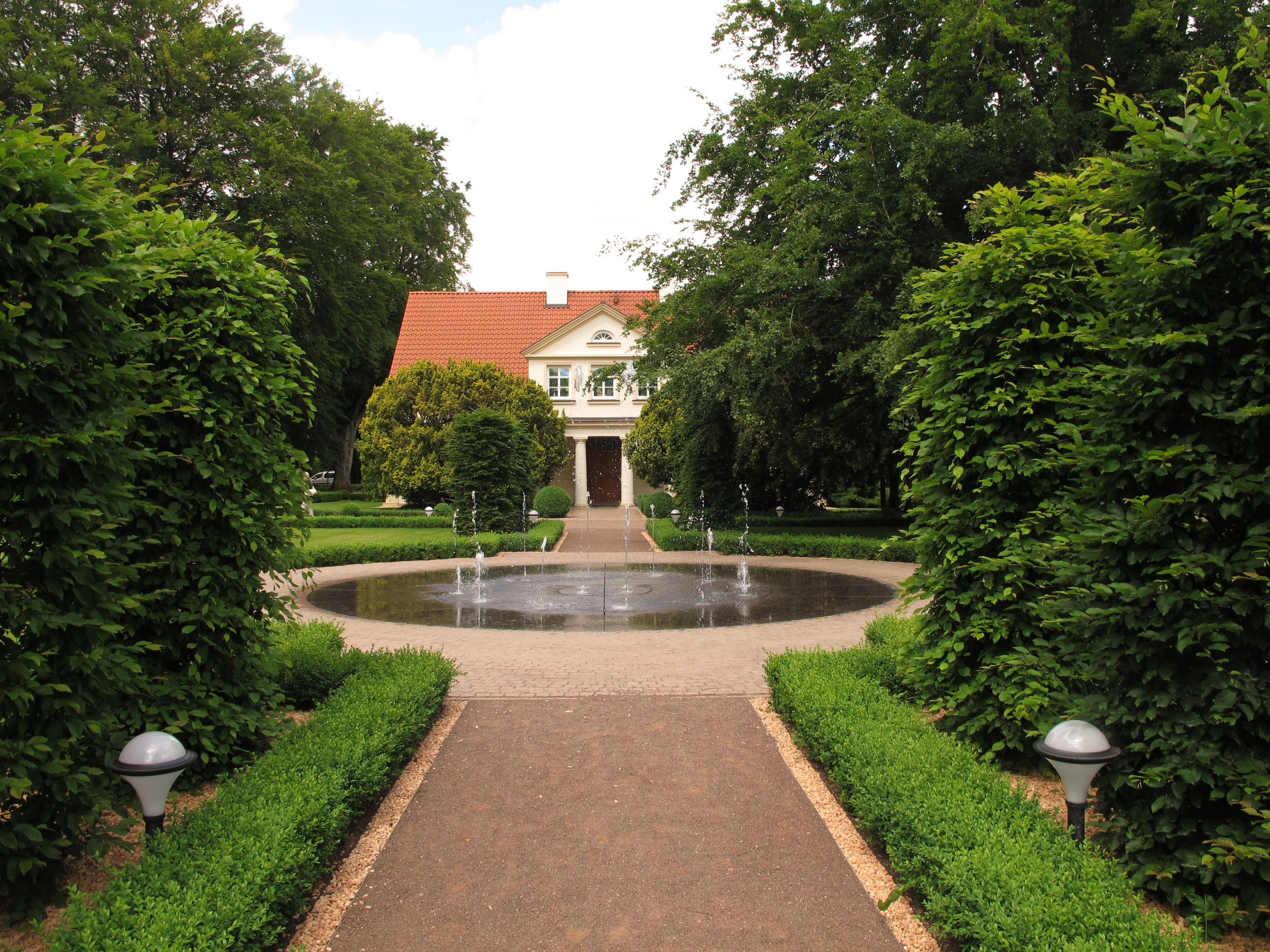 Gdańsk - Saltzmann manor